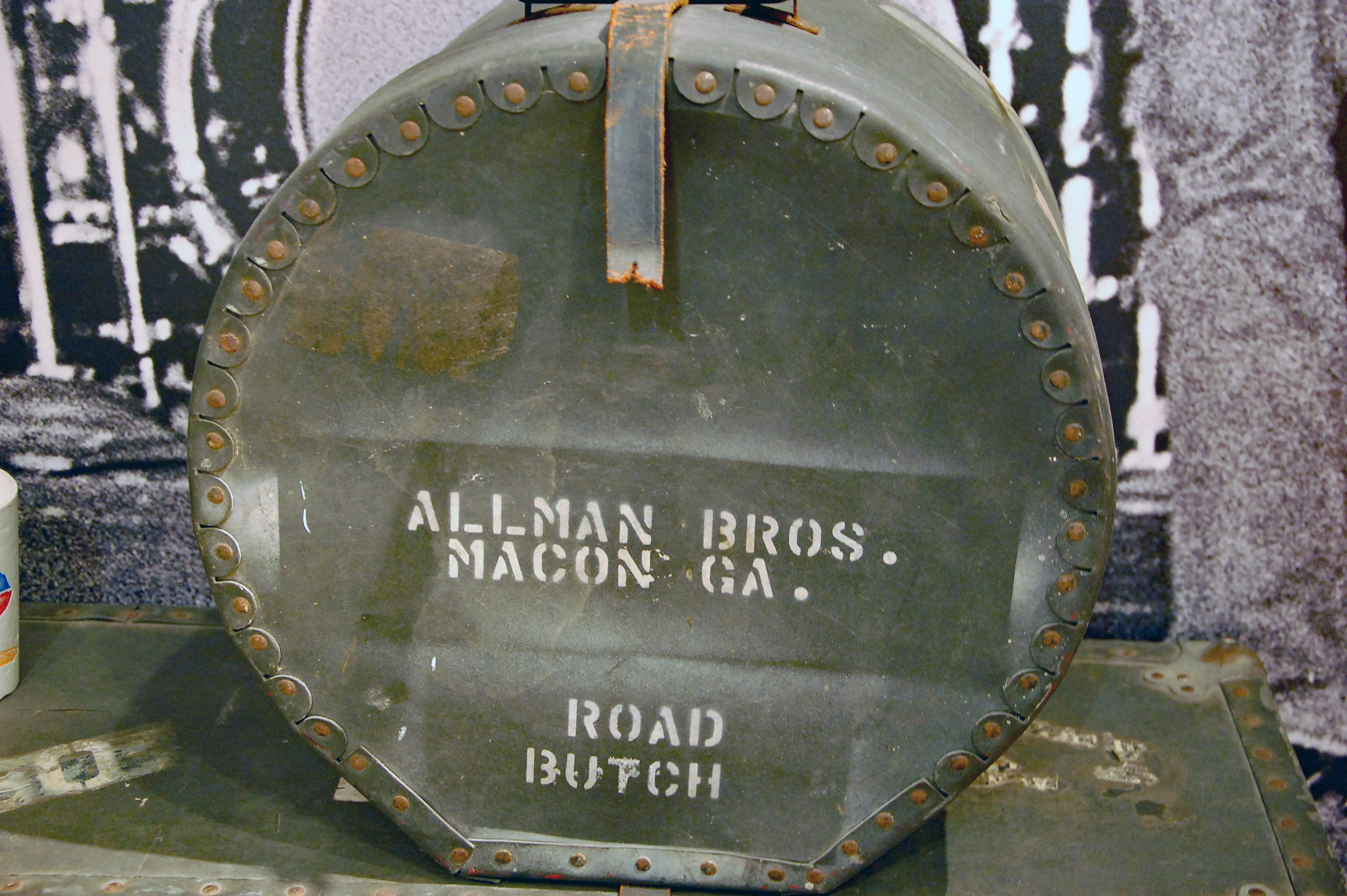 Item on display at The Allman Brothers Band Museum (drum case).